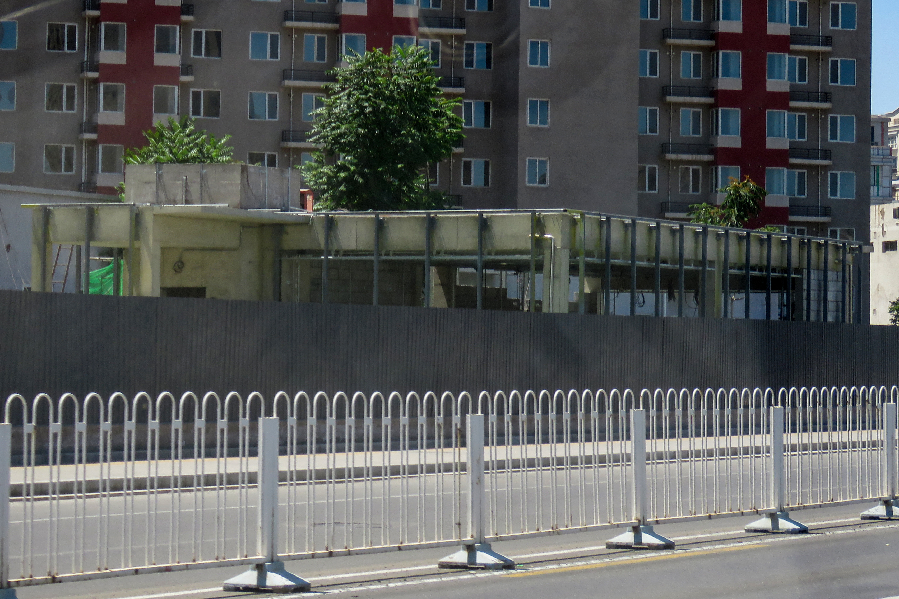 The last underground station from north to south.